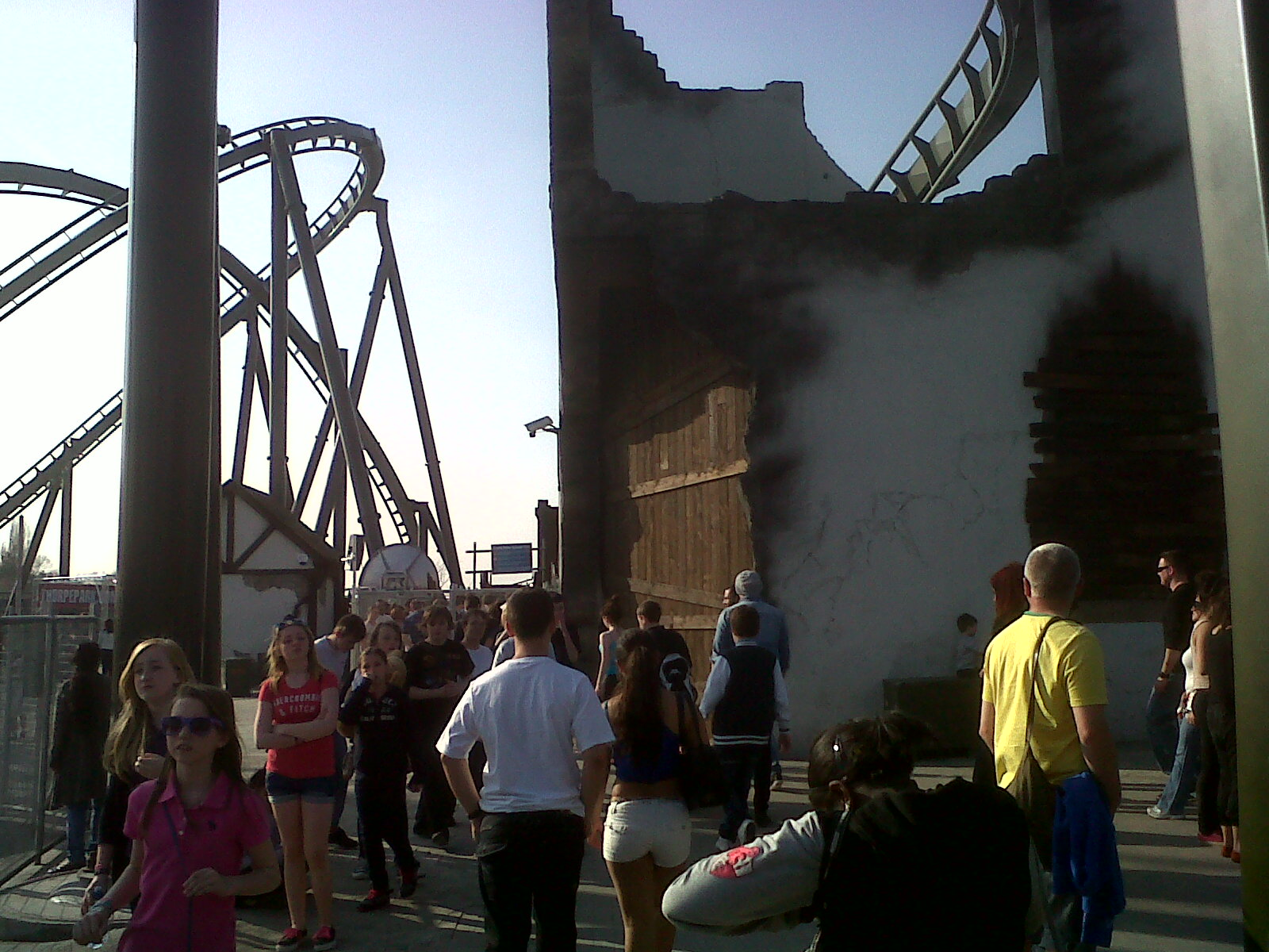 part of the swarms destroyed church